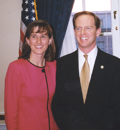 Pat and Kris Toomey meet with constituents on swearing-in day.